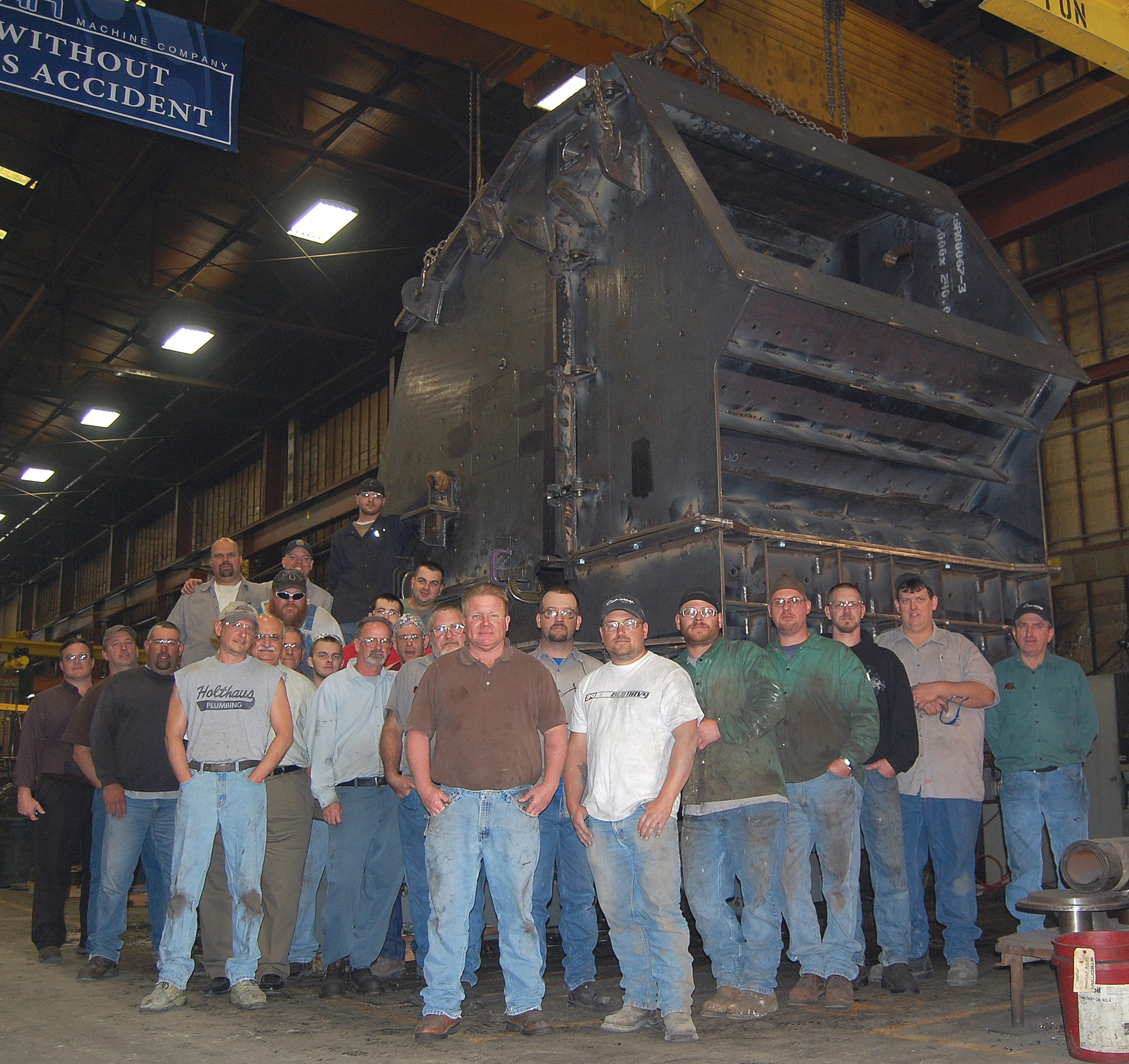 Stedman 6490 MegaSlam horizontal shaft impactor